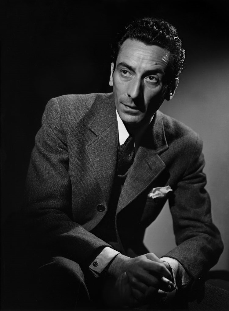 Enrique Santos Discépolo por Annemarie Heinrich